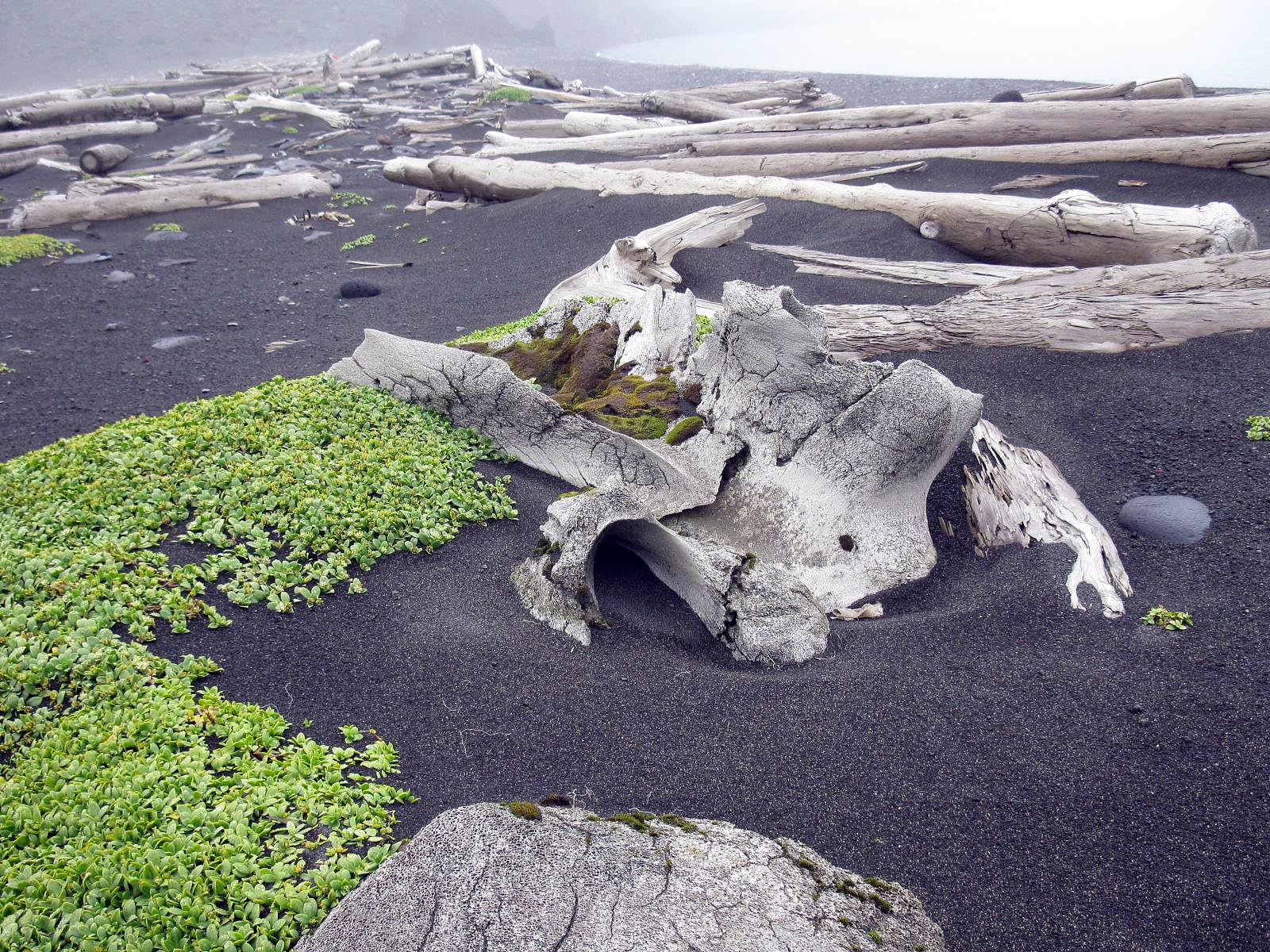 Vegetation on the island of Jan Mayen, between whale bones and washed up tree trunks